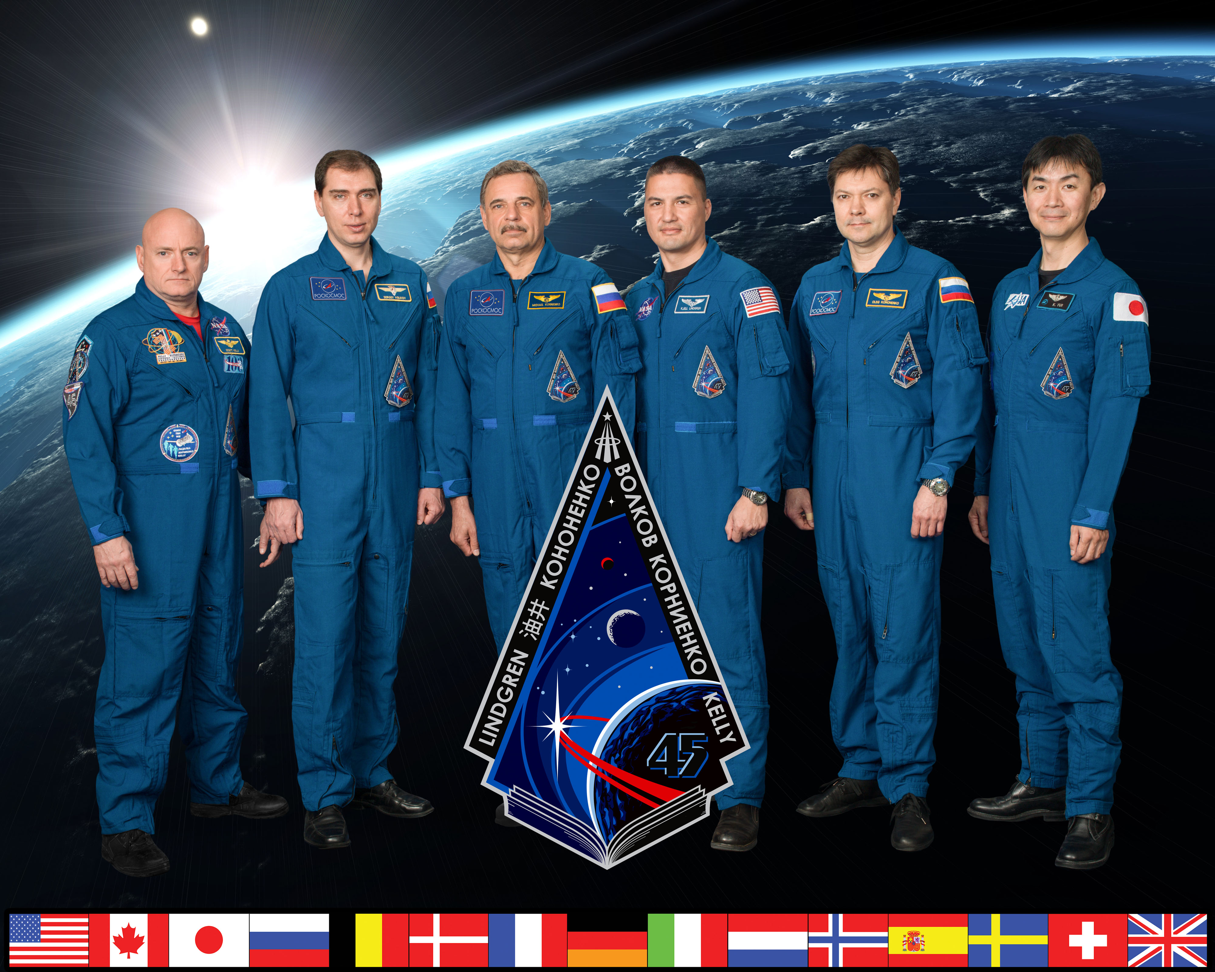 Expedition 45 crew portrait with (from left) Commander Scott Kelly and Flight Engineers Sergey Volkov, Mikhail Kornienko, Kjell Lindgren, Oleg Kononenko and Kimiya Yui.